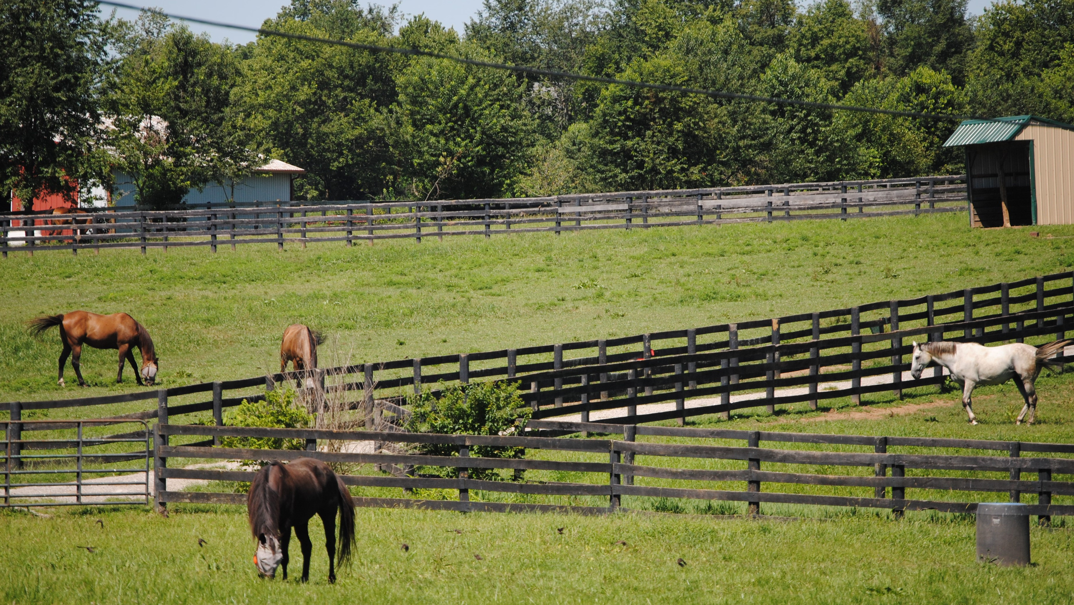 Old Friends Equine is a retirement home for thoroughbred race horses